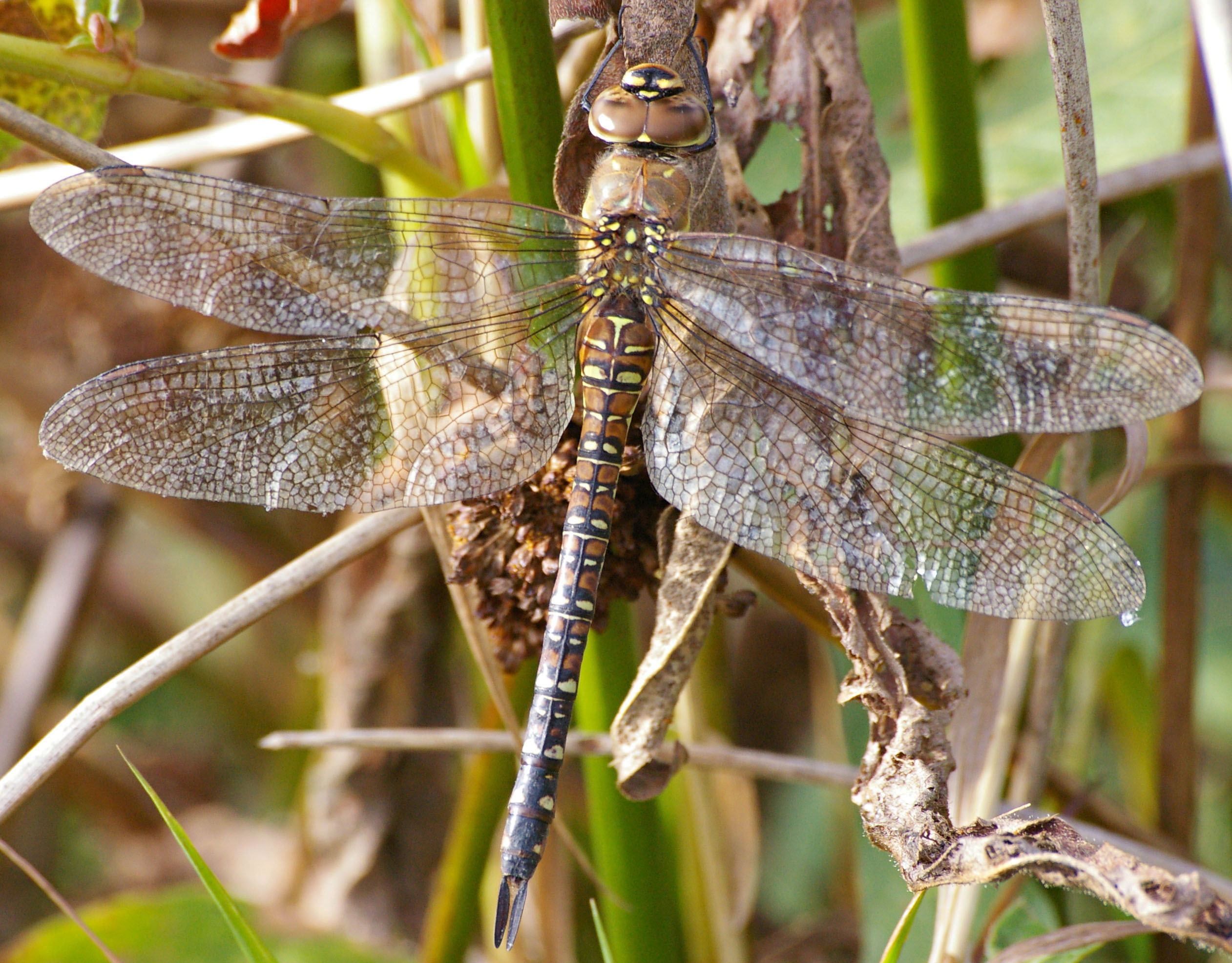 Female Migrant Hawker, Aeshna mixta; resting after oviposition.